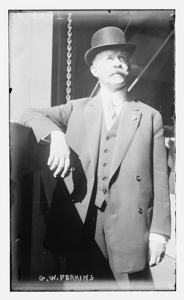 G. W. Perkins (LOC) George Walbridge Perkins in 1911 Bain News Service,, publisher. G.W. Perkins [between ca. 1910 and ca. 1915] 1 negative : glass ; 5 x 7 in. or smaller. Notes: Title from unverified data provided by the Bain News Service on the negatives or caption cards. Forms part of: George Grantham Bain Collection (Library of Congress). Format: Glass negatives. Repository: Library of Congress, Prints and Photographs Division, Washington, D.C. 20540 USA, General information about the Bain Collection is available at Persistent URL: Call Number: LC-B2- 2823-10